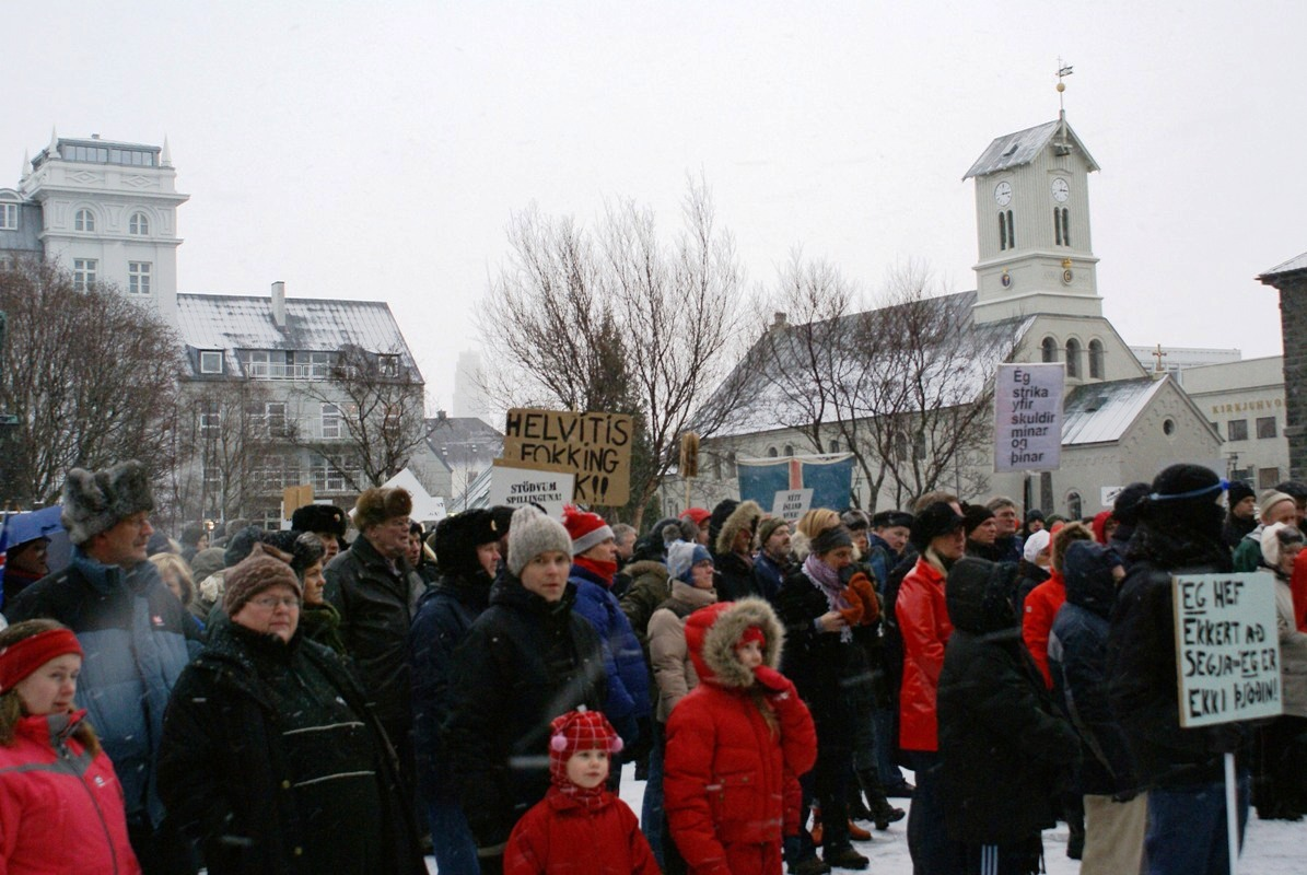 Week 15 (14x): 2009-01-17. Protesters at Austurvöllur. The Kitchenware-Revolution in Iceland was organize by Hördur Torfason and "Raddir Fólksins". It started in the wake of the collapse of the banking system followed be the decimation of Icelandic economy in the beginning of October 2008. It resulted in the resignation of Geir H. Haarde and his cabinet on January 26. 2009. The protest meetings were held every Saturday at the Austurvöllur square in front of Alþingishús - the Icelandic parliament house. The first meeting (week 1) was dated Saturday 11. October 2008. The 16th meeting dated January 24. 2009.